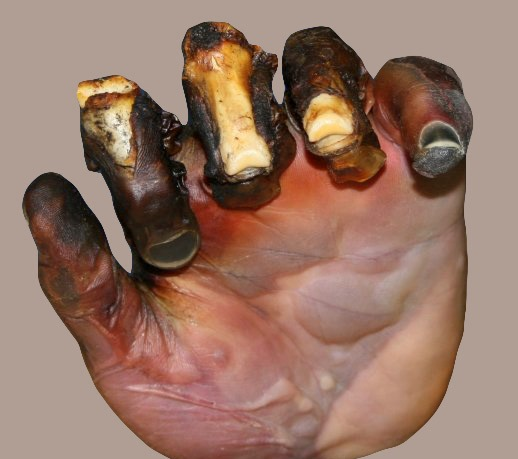 2nd- to 4th-degree hand burns with tissue charring